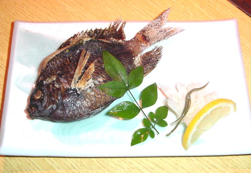 Grilled Chromis chrysura in Amami Oshima